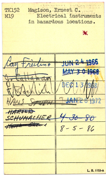 library card found in pittsburgh pennsylvania